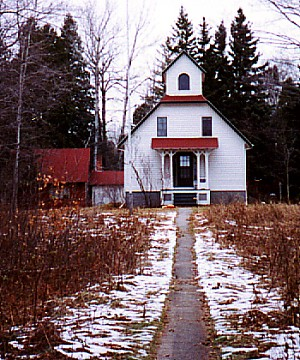 Taken by me, Jjegers